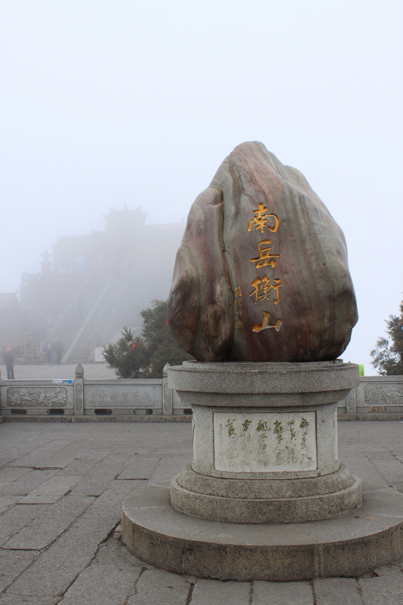 Mount Heng (Hunan)